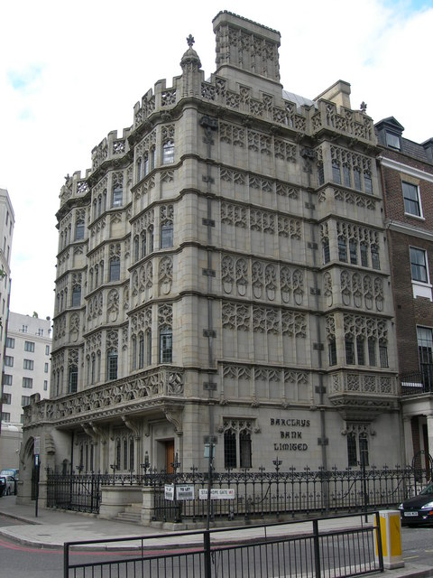 Barclays Bank, Park Lane Branch. This very ornate building can be seen easily from Park Lane. It is on the corner of Stanhope Gate and Park Lane.